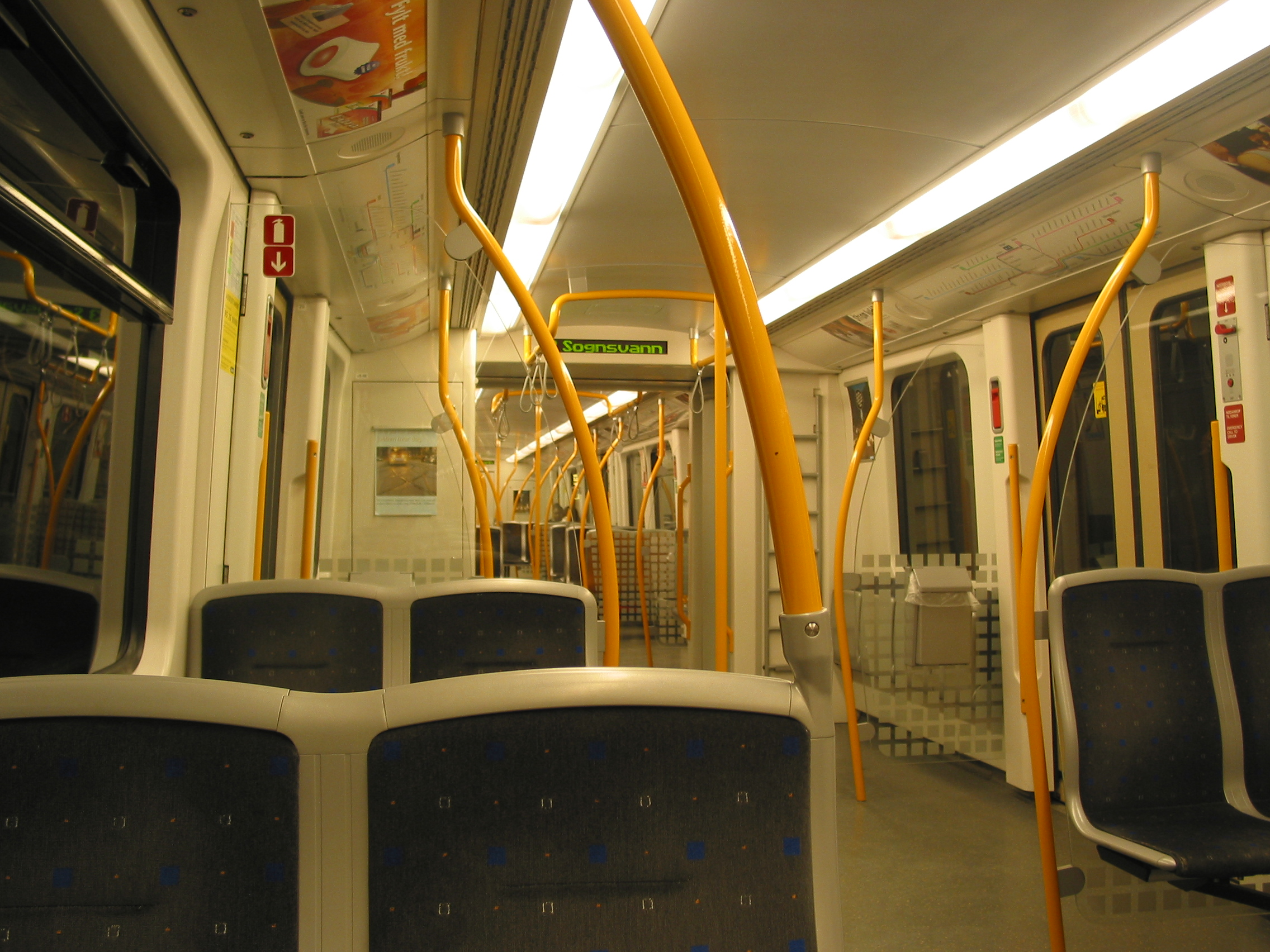 Inside a MX3000 wagon at the Oslo subway